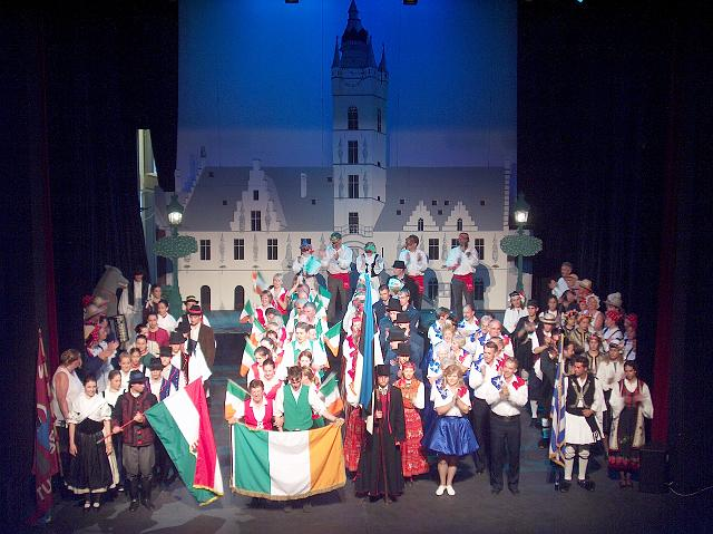 Festival Reynout